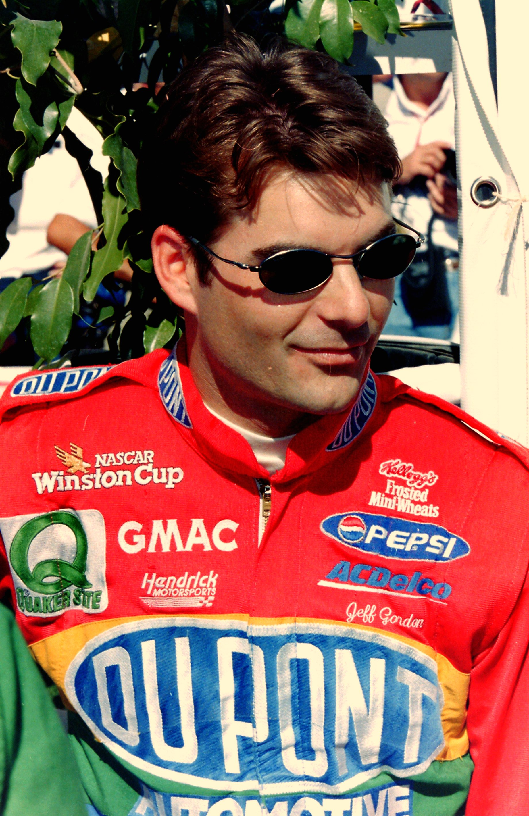 Jeff Gordon sometime in 1997